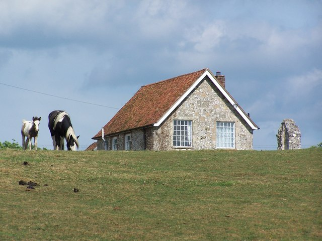 Ivechurch farm and remains of priory